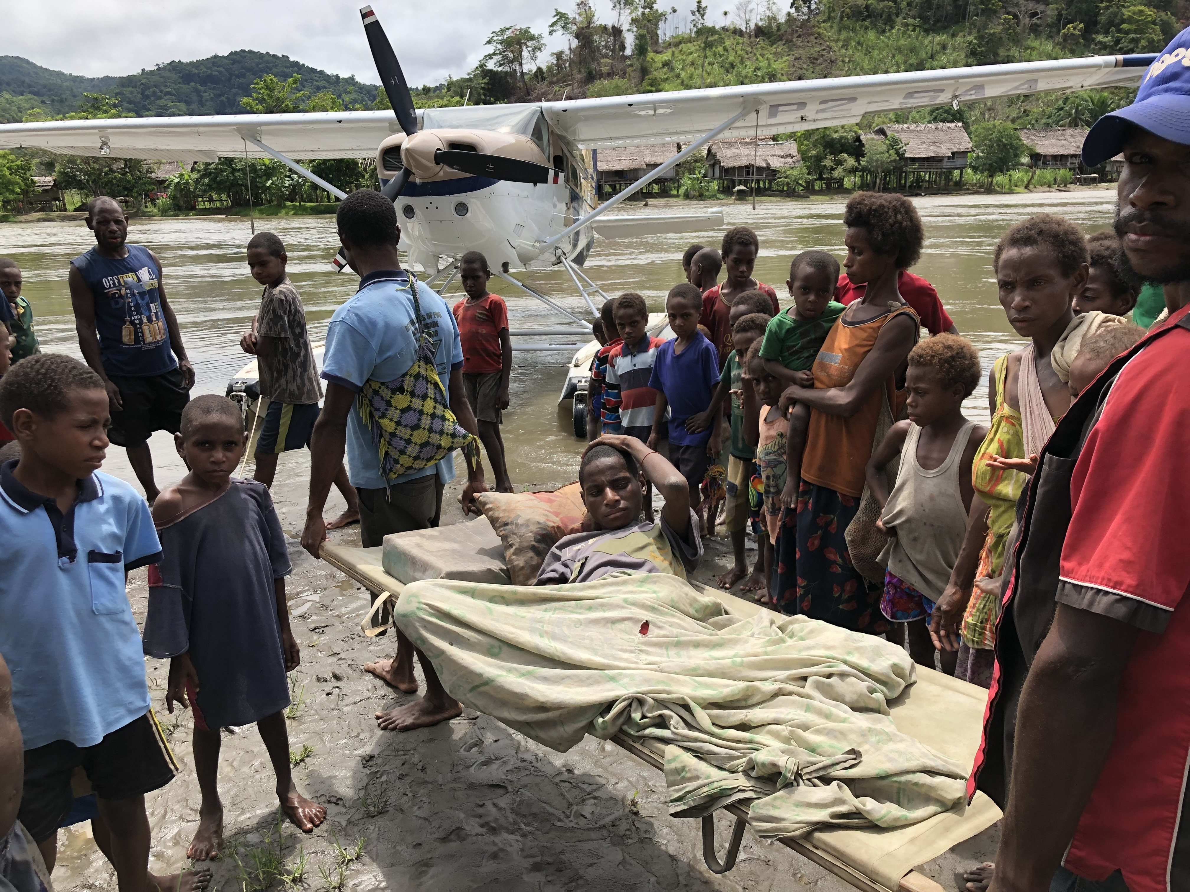 Samaritan Aviation provides medical transport for a child living in a remote village in PNG, whose hip has been dislocated for 3 weeks